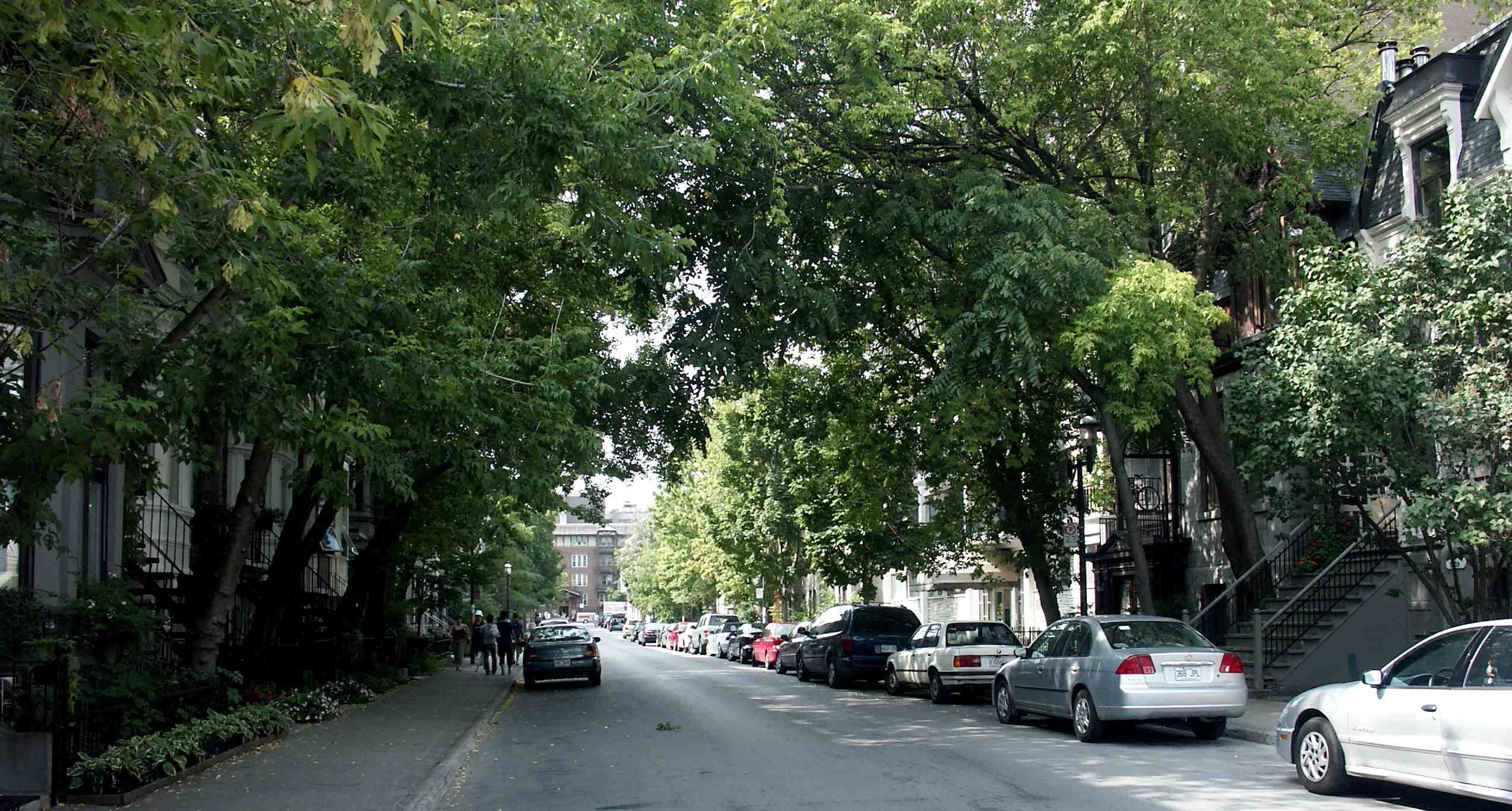 Typical street of the student quarter informally called the « McGill Ghetto », adjacent to McGill University, Montreal. Taken from the intersection of Aylmer Street with Milton Street looking North on Aylmer Street.